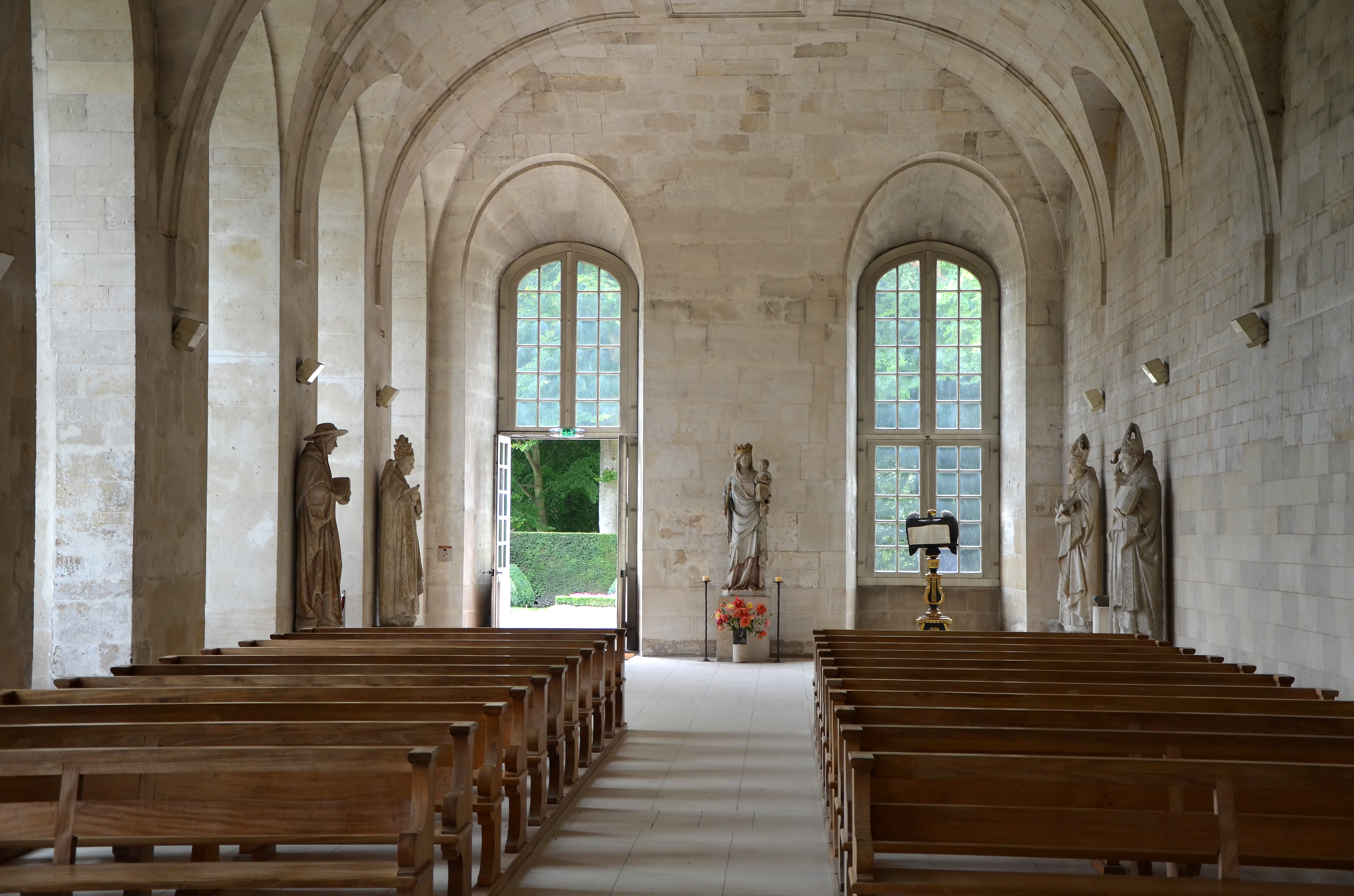 Church of the abbey of Notre-Dame du Bec, Eure, France